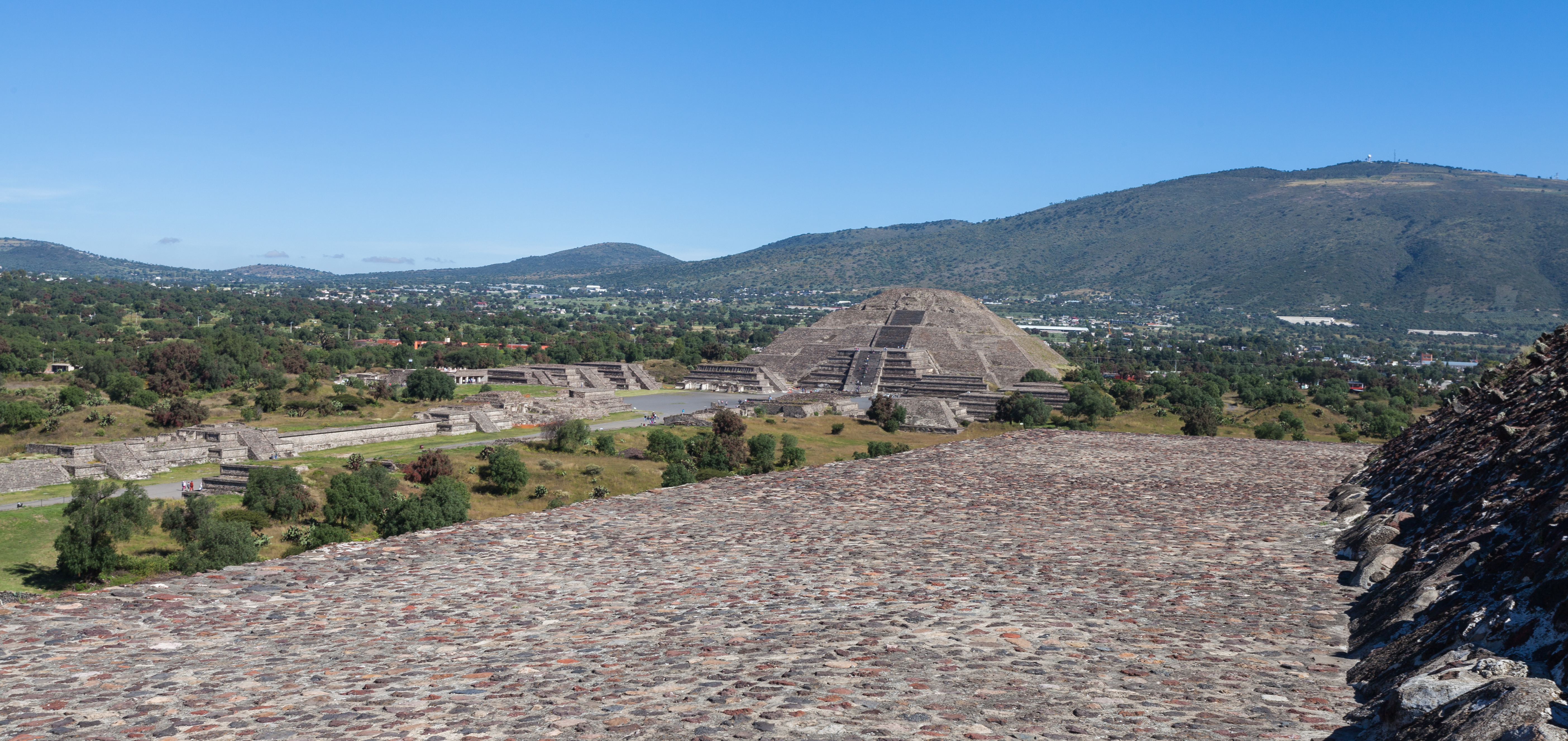 Pyramid of the Moon, Teotihuacán, Mexico